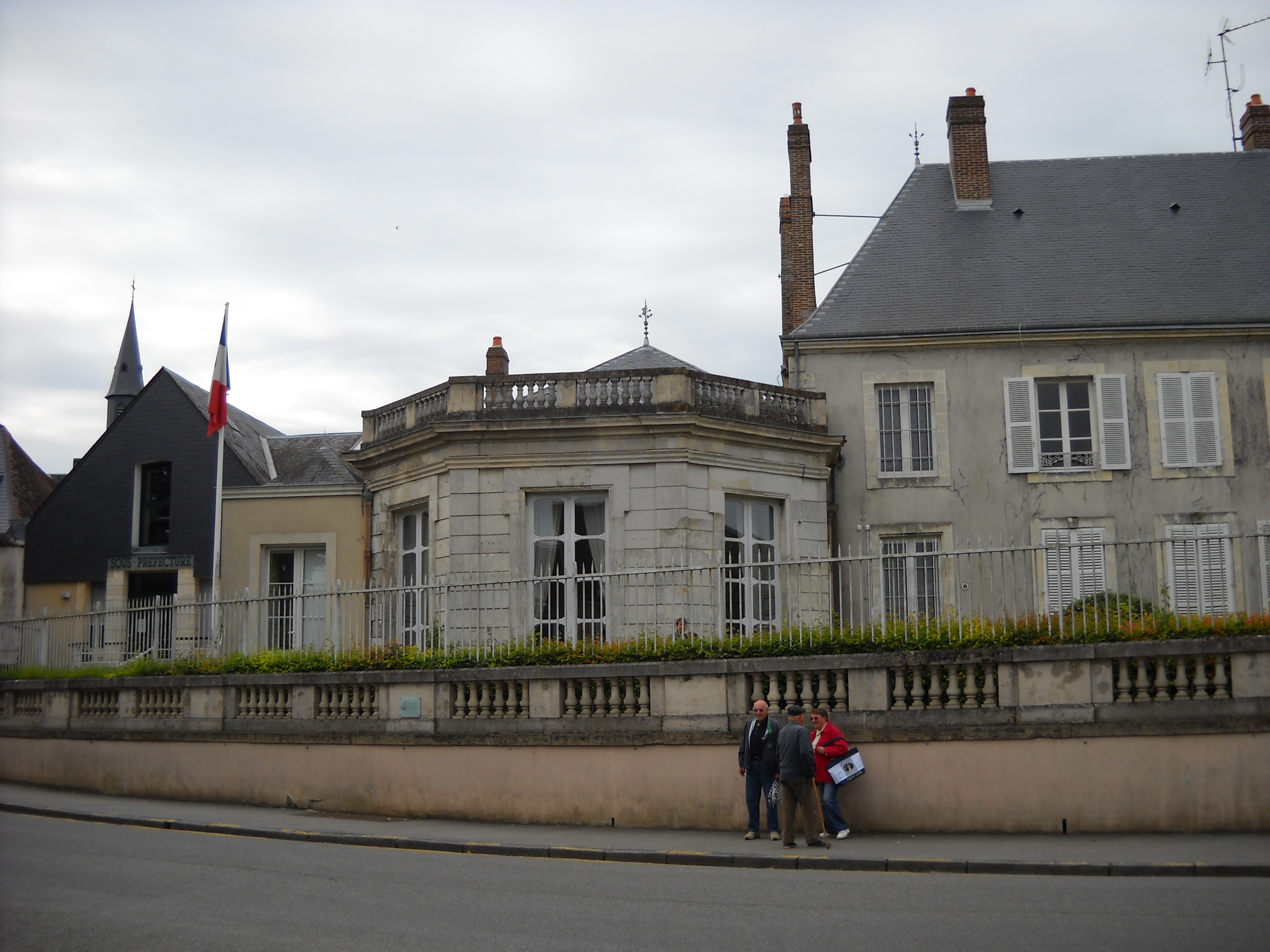 The subprefecture of Mortagne-au-Perche, Orne, France.